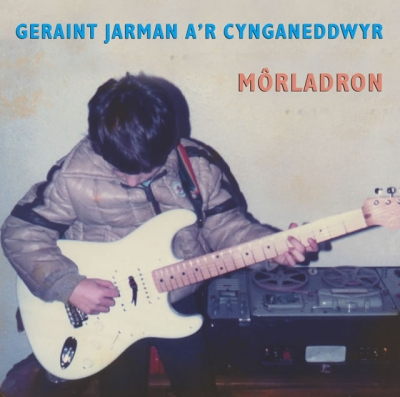 Artwork for the EP Morladron by Geraint Jarman